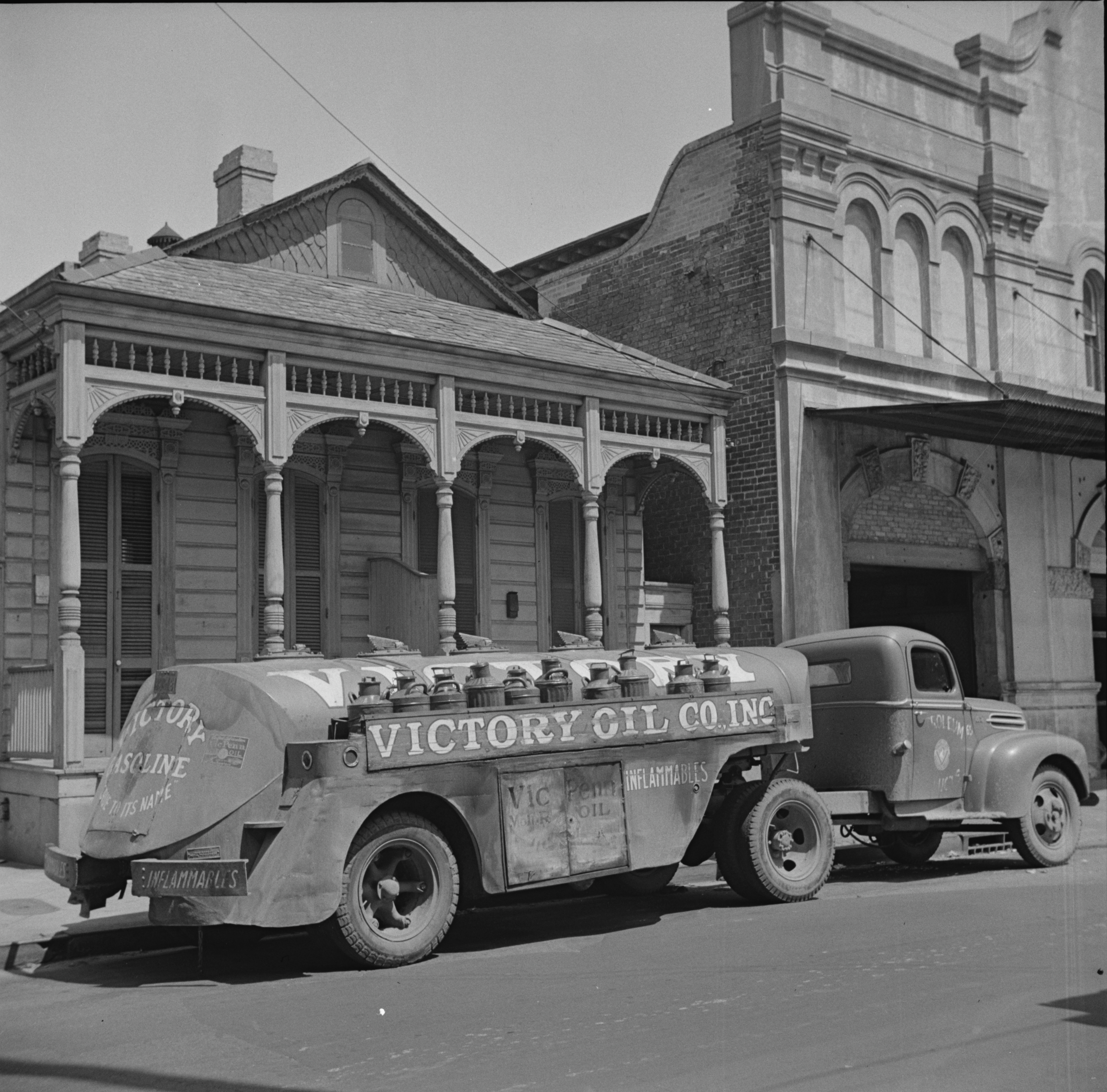 New Orleans, Louisiana, 1943. "Victory Oil" truck. Lake side of Chartres Street between Frenchmen Street & Elysian Fields.